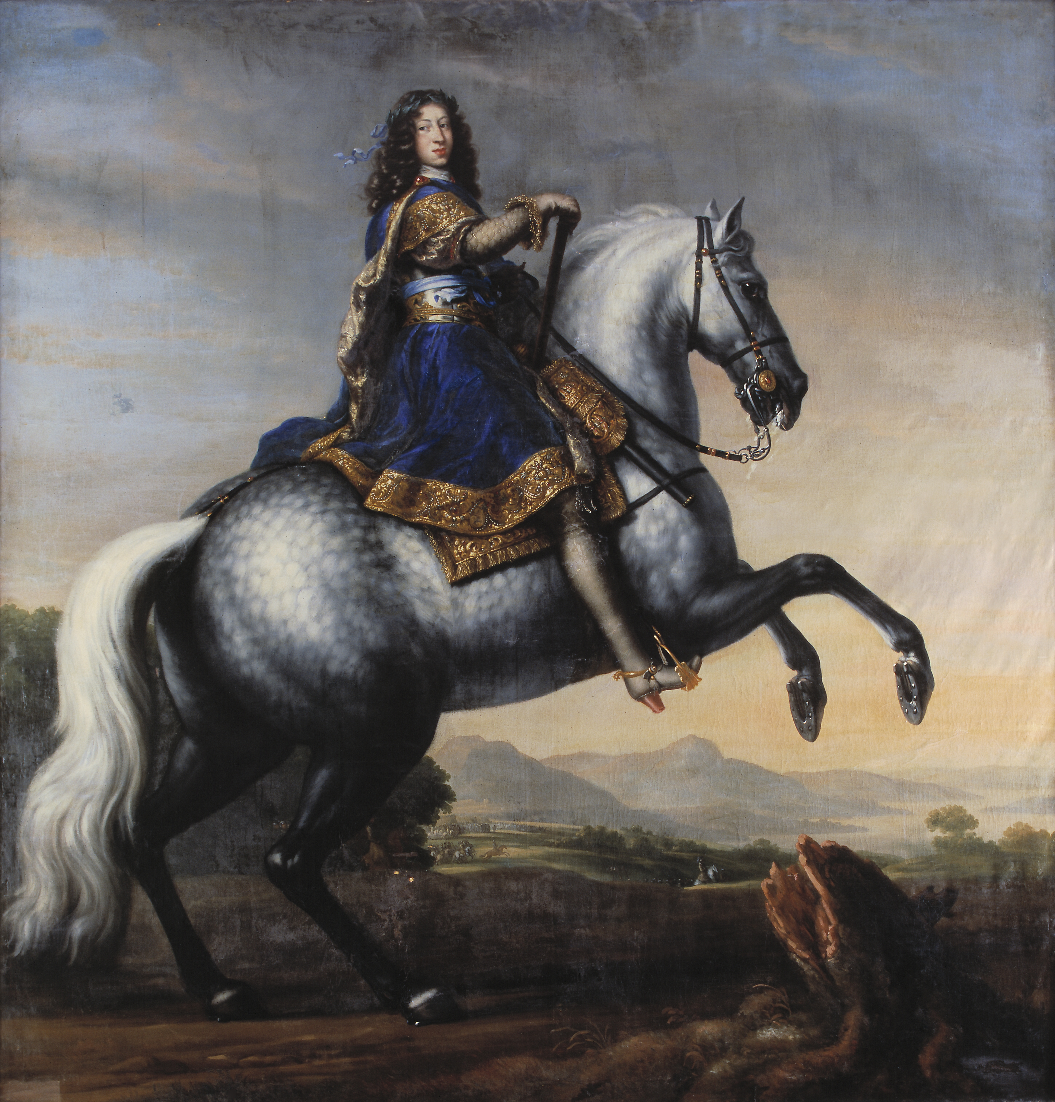 Note: For documentary purposes the original description has been retained. Factual corrections and alternative descriptions are encouraged separately from the original description.Porträtt av ryttare, kungaporträtt, olja på duk. Nyckelord: Ryttare, Målning, Porträtt, Häst Depicted person: Karl XI av Sverige